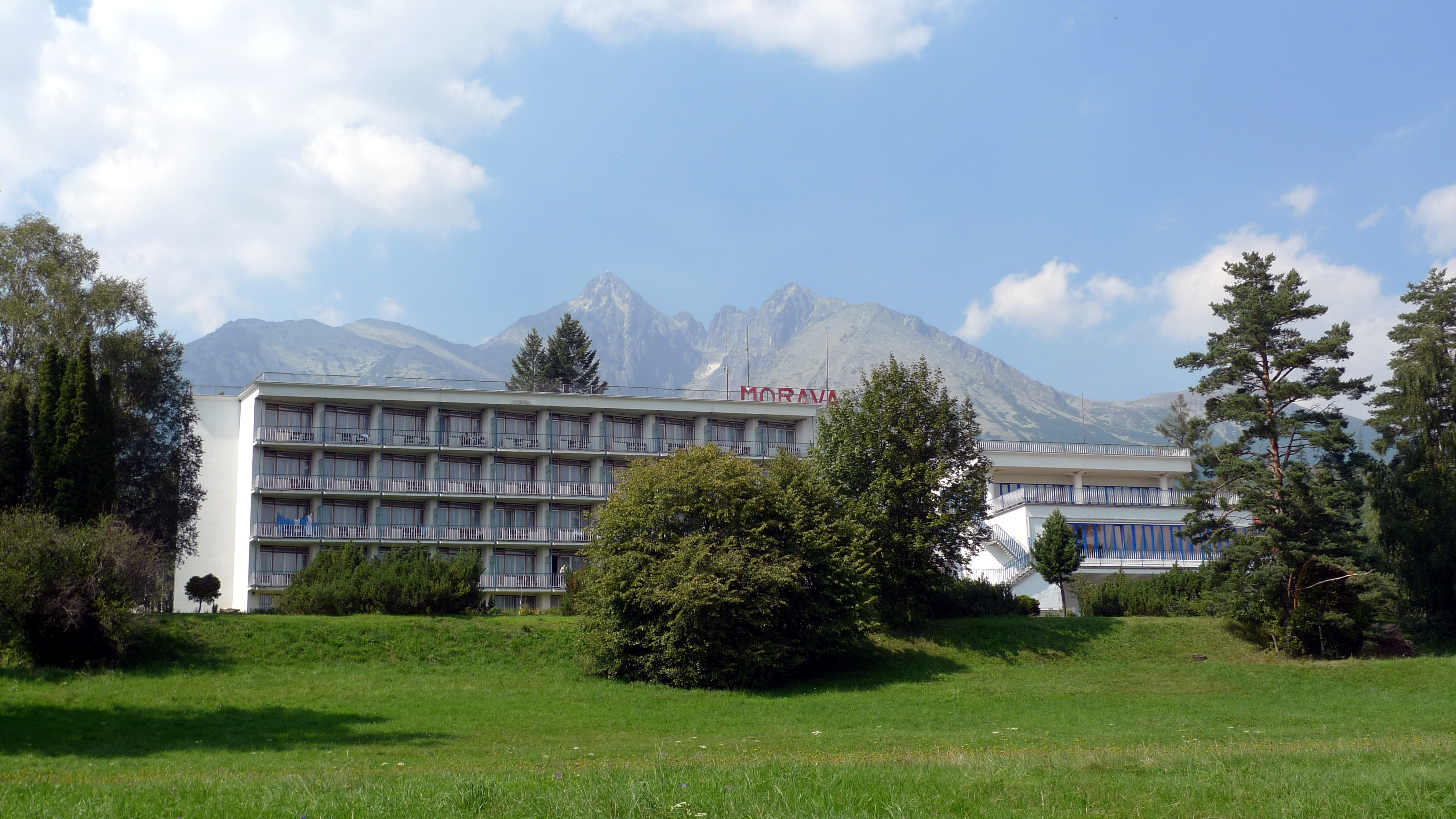 Hotel Morava in Tatranská Lomnica, Slovakia Česky: Hotel Morava v Tatranské Lomnici ve Vysokých Tatrách